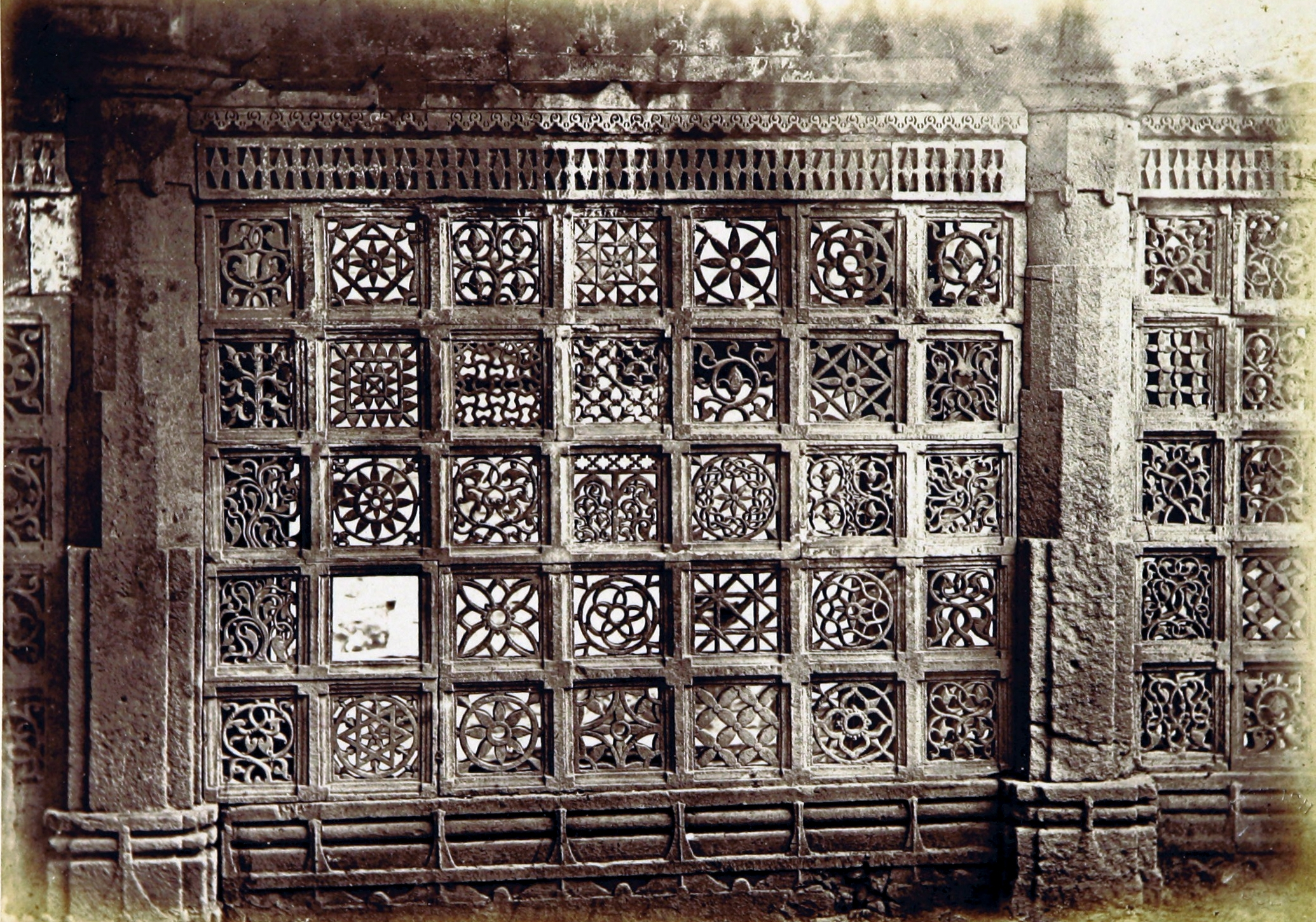 Image taken from: Title: "Architecture at Ahmedabad, the Capital of Goozerat, photographed by Colonel Biggs, ... With an historical and descriptive sketch, by T. C. H., ... and architectural notes by J. Fergusson, etc" Author: HOPE, Theodore Cracraft - Sir, K.C.S.I Contributor: BIGGS, Thomas. Contributor: FERGUSSON, James - Architect Shelfmark: "British Library HMNTS 10057.f.17.", "British Library OC V 6665" Page: 299 Place of Publishing: London Date of Publishing: 1866 Issuance: monographic Identifier: 001730119 Note: The colours, contrast and appearance of these illustrations are unlikely to be true to life. They are derived from scanned images that have been enhanced for machine interpretation and have been altered from their originals. If you wish to purchase a high quality copy of the page that this image is drawn from, please order it here. Please note that you will need to enter details from the above list - such as the shelfmark, the page, the book's volume and so on - when filling out your order. Following this or the link above will take you to the British Library's integrated catalogue. You will be able to download a PDF of the book this image is taken from, as well as view the pages up close with the 'itemViewer'. Click on the 'related items' to search for the electronic version of this work. Click here to see all the illustrations in this book and click here to browse other illustrations published in books in the same year. Please click on the tags shown on the right-hand side for other ways to browse the illustrations.